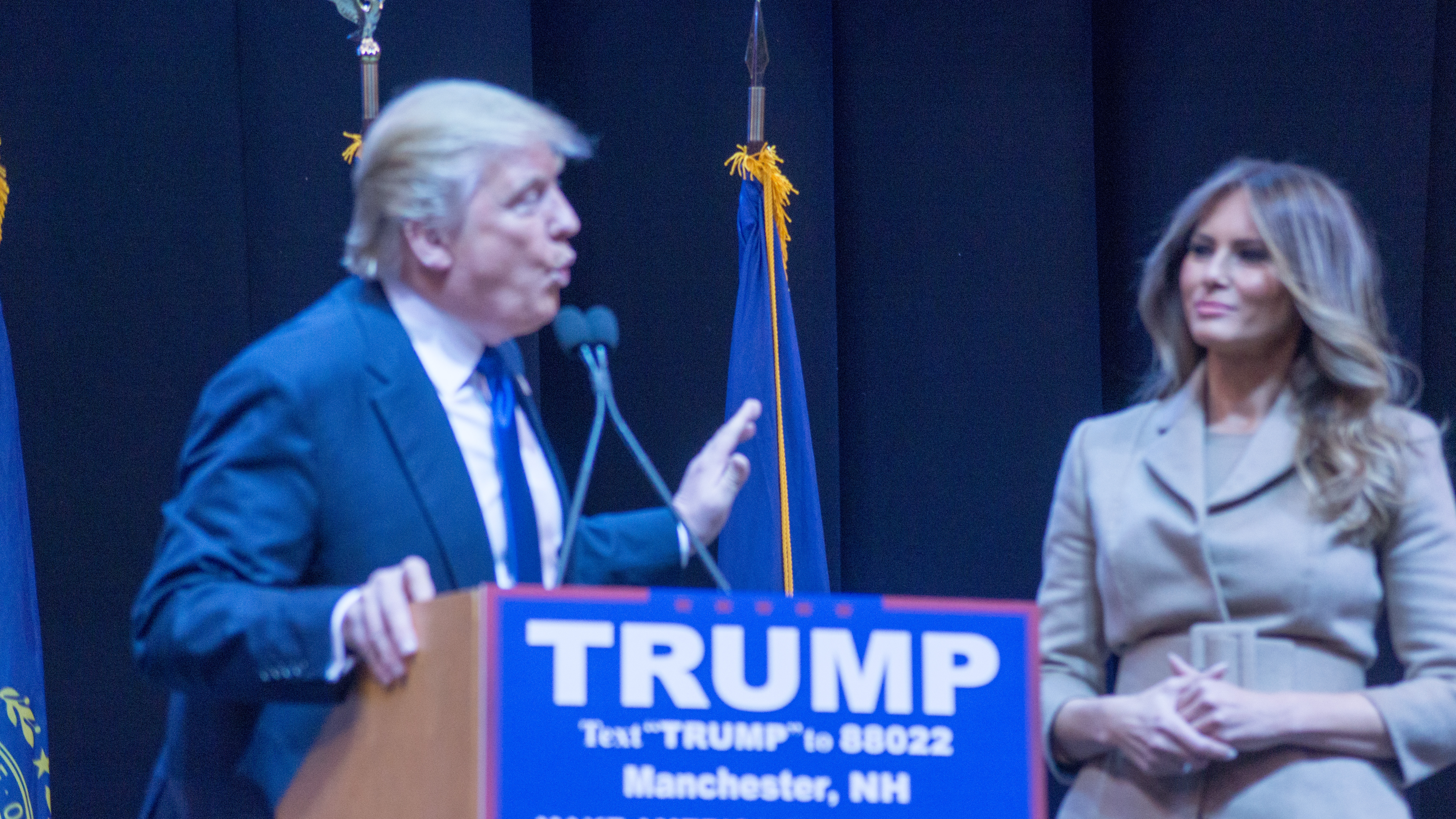 Donald Trump and Melania Trump